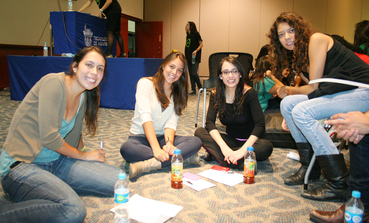 Reto Ciel (Ciel Challenge) at ITESM CCM